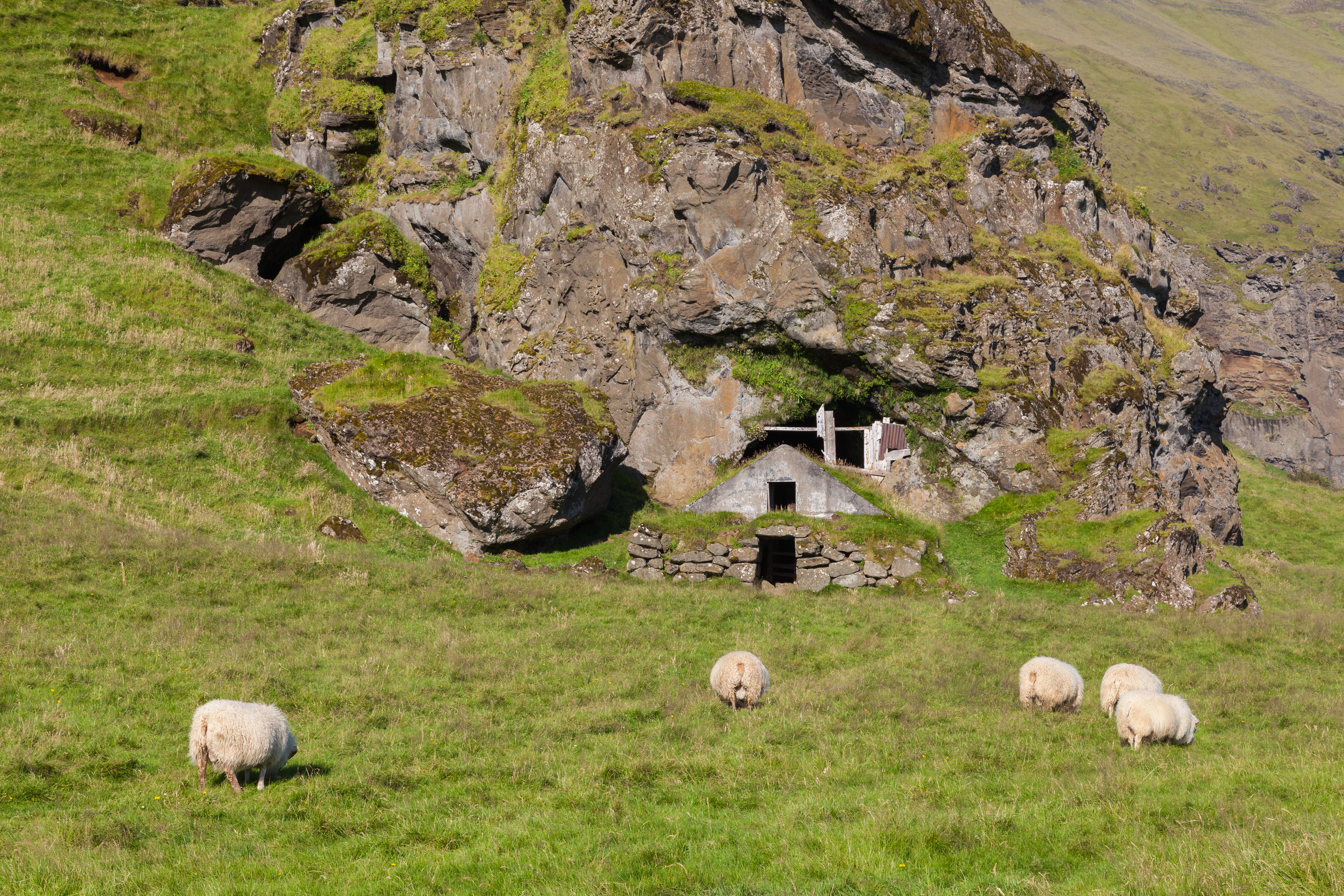 Rútshellir, Suðurland, Iceland